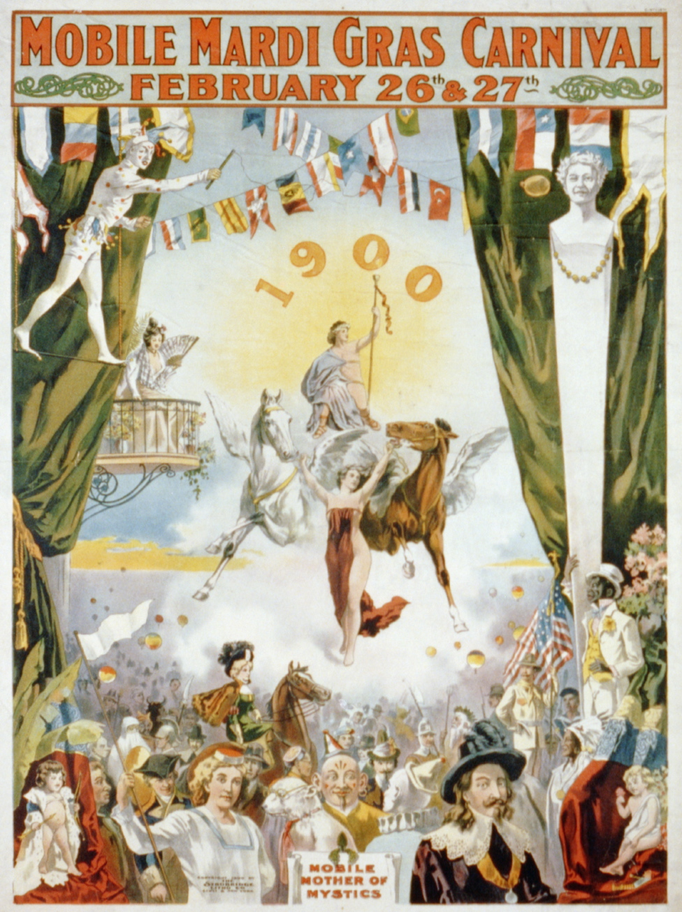 Mobile Mardi Gras Carnival, February 26th & 27th 1900 advertising poster